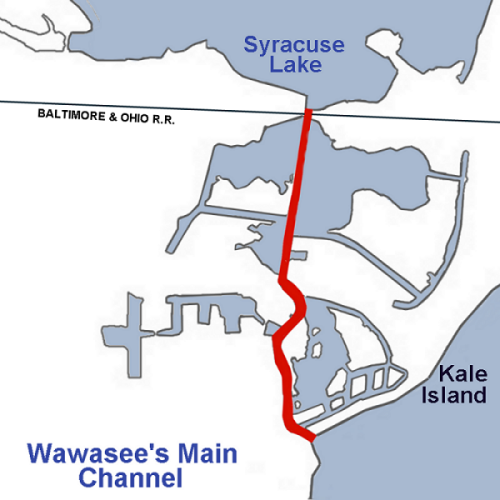 Basic graphic file showing the main channel between Lake Wawasee and Syracuse Lake, Indians